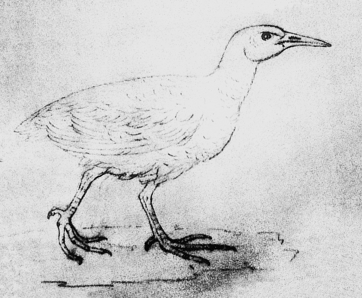 Unnamed extinct Gallirallus species from Vava'u, Tonga.